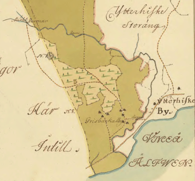 Map of the borders of the village Grisbacka in Umeå, Sweden.